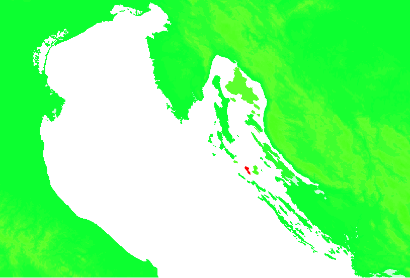 Island of Croatia Croatia - Silba.PNG